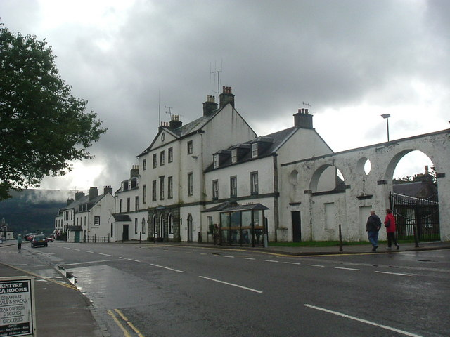 Inveraray after rain